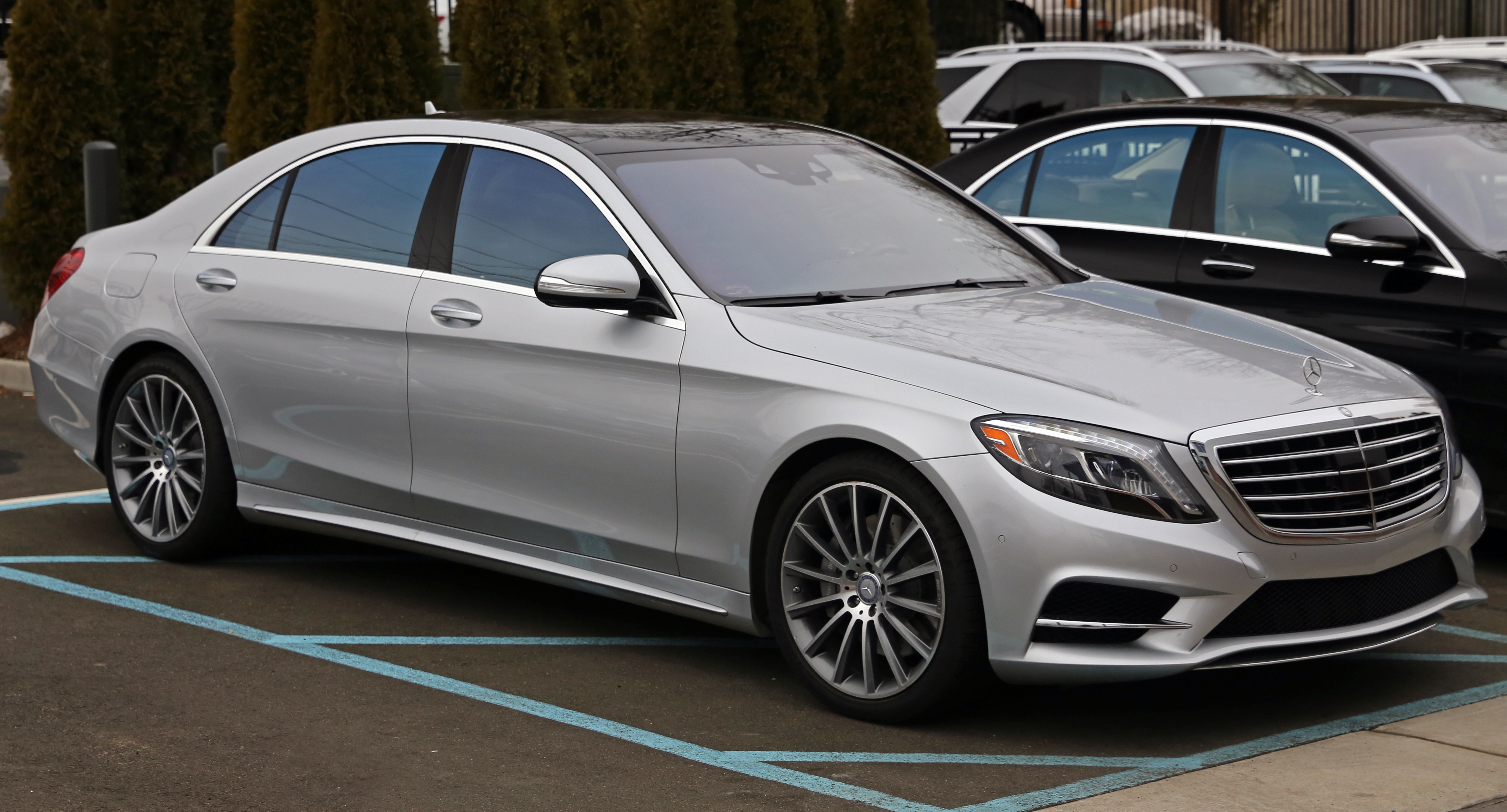 A 2014 US market Mercedes-Benz S550 (long wheelbase) in Greenwich, CT.